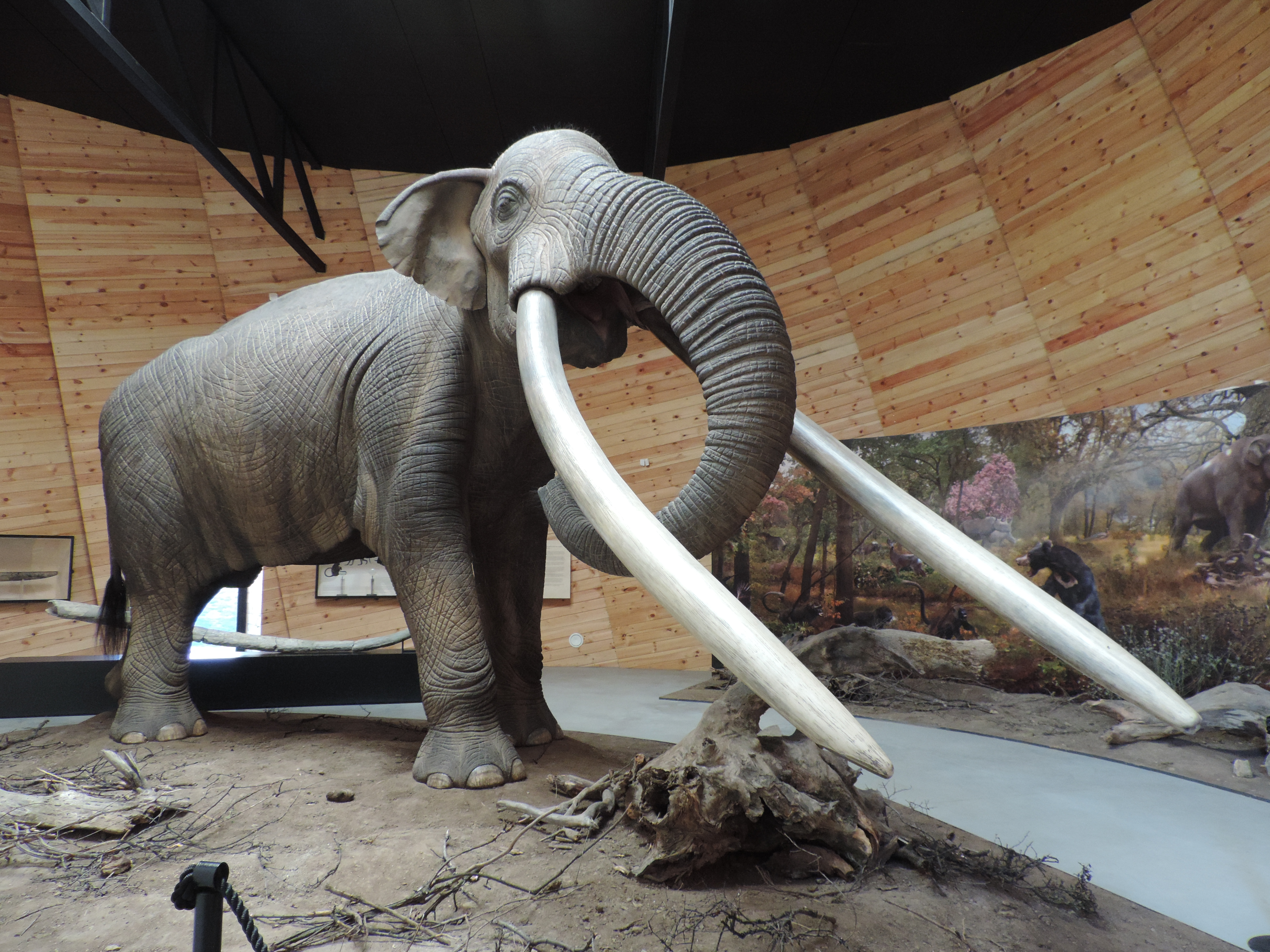 Mastodont Anancus arvernensis - Park Pliocene epoch, Dorkovo, Bulgaria. Author: Simeon Stoilov Studio.